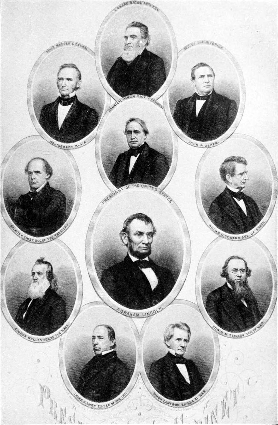 Oval-framed portrait of President of the United States Abraham Lincoln surrounded by oval-framed portraits of his cabinet